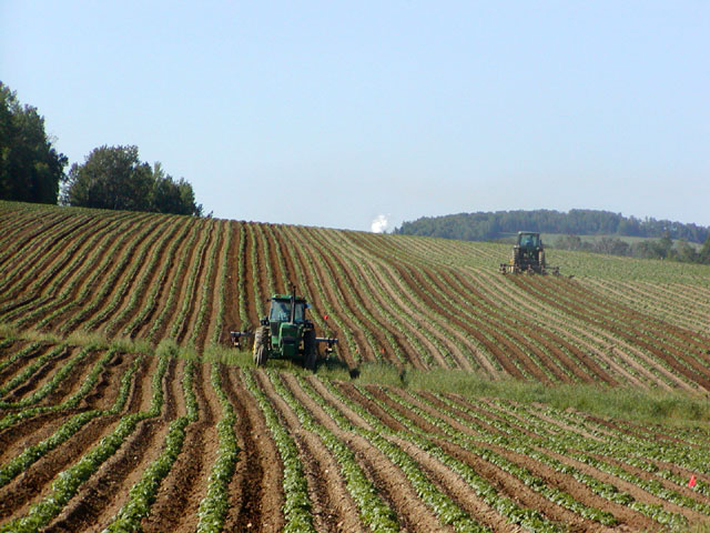 Tractors work in a potato field in Fort Fairfield, Maine.